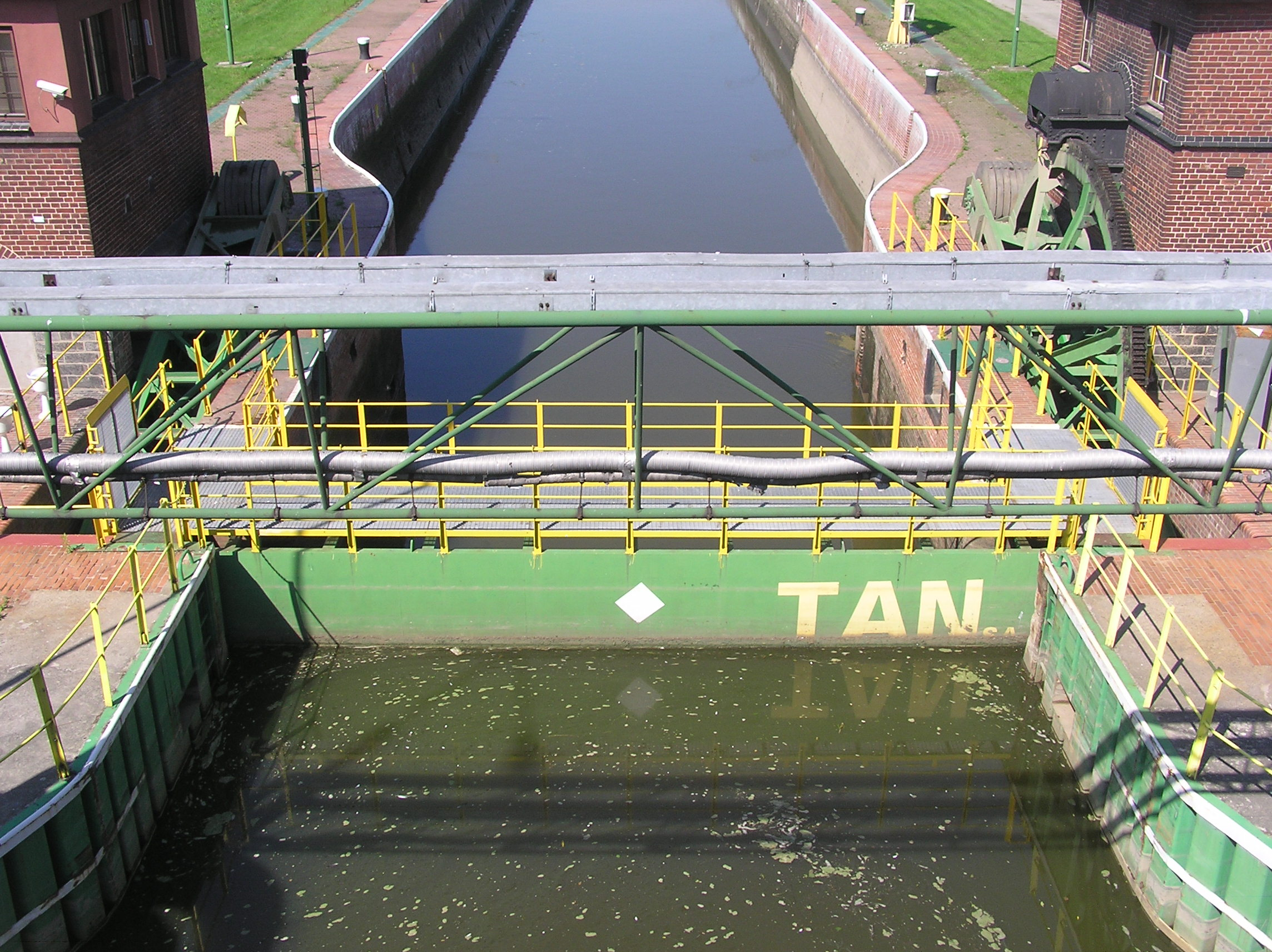 Wrocław, Oder River, Różanka Canal, Różanka Lock